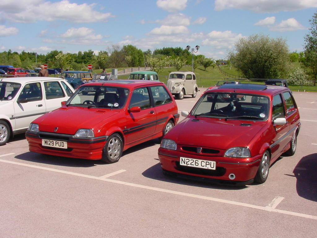 August 1994 red Rover Metro 1.4 GTi & October 1995 red Rover 100. Metro 30th Anniversary at Heritage Motor Centre, Gaydon, UK